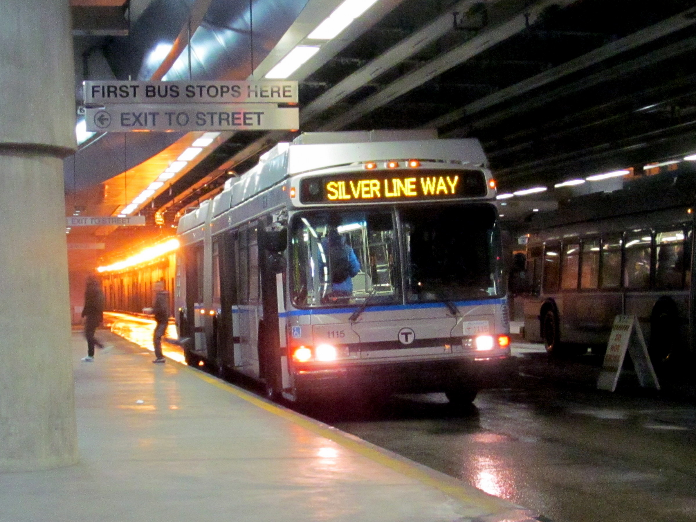 A Silver Line Waterfront short-turn bus at Courthouse station in March 2017